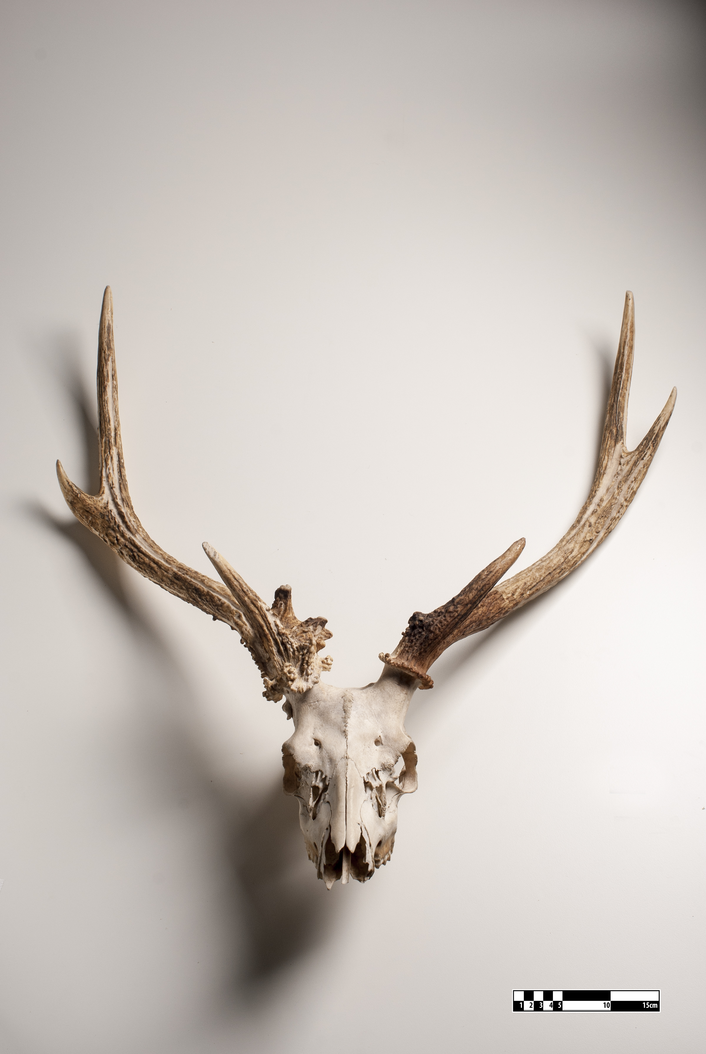 Cervid skull. Cervidae Specimen of cervid skull prepared by the bone maceration technique and on display at the Museum of Veterinary Anatomy, FMVZ USP. This file was published as the result of a partnership between the Museum of Veterinary Anatomy FMVZ USP, the RIDC NeuroMat and the Wikimedia Community User Group Brasil. This GLAM project is reported. Photography: Museum of Veterinary Anatomy FMVZ USP.